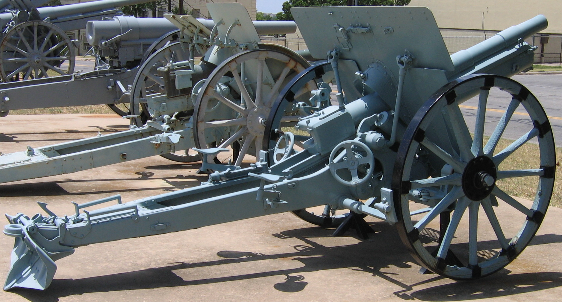 Right side rear view of Skoda 8 cm Feldkanone M 17, a 76.5 mm field and mountain gun, at U.S. Army Field Artillery Museum, Ft. Sill, Oklahoma.